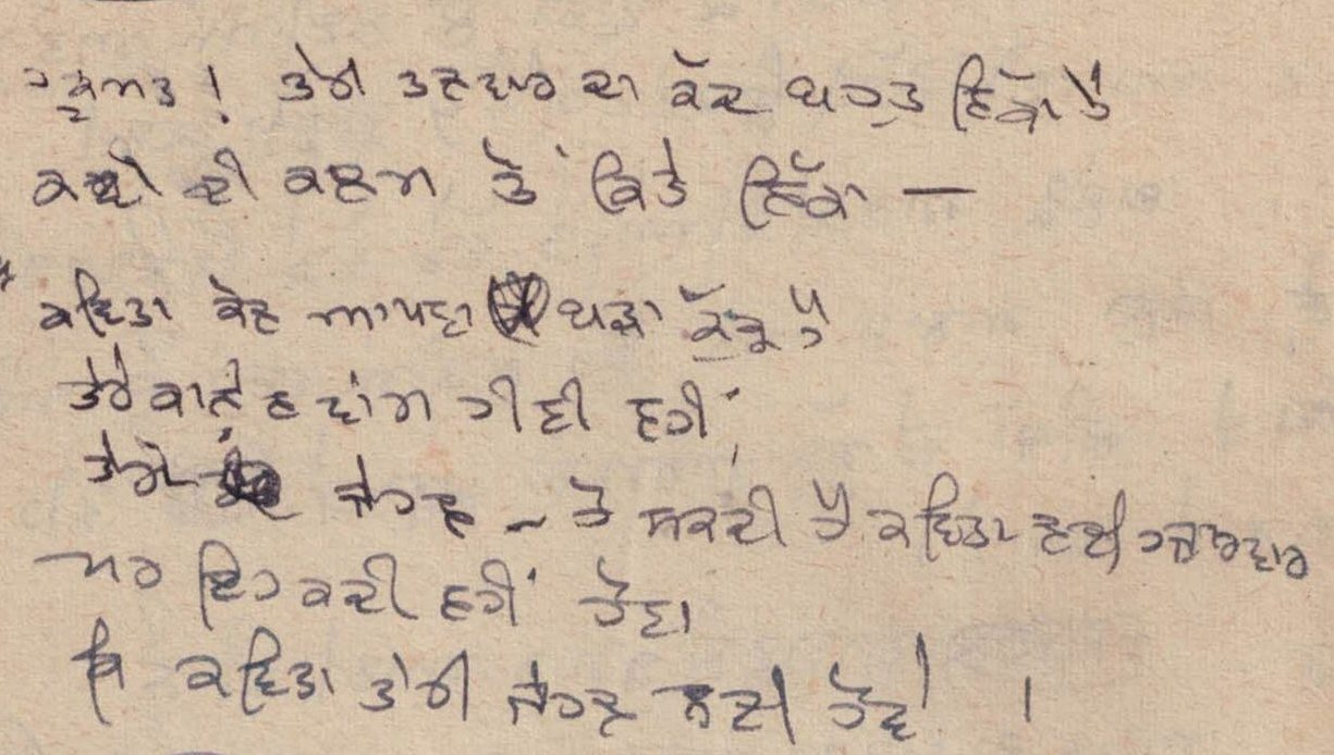 Original transcript of Hakumat (By Parsh)